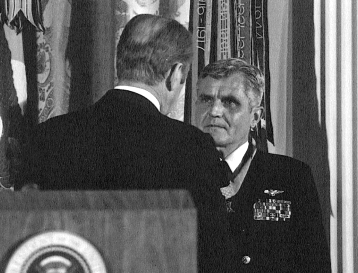 Navy File Photo: Washington, D.C. (March 4, 1976) - President of the United States of America, Gerald R. Ford, (back to camera) presents the Medal of Honor to Rear Admiral James B. Stockdale, USN, during an awards ceremony in the East Room of the White House. Rear Admiral Stockdale earned the nation's highest decoration for his leadership as a Prisoner of War in North Vietnam from 9 Sept. 1965 to 12 Feb. 1973. U.S. Navy Photo by Dave Wilson (RELEASED)